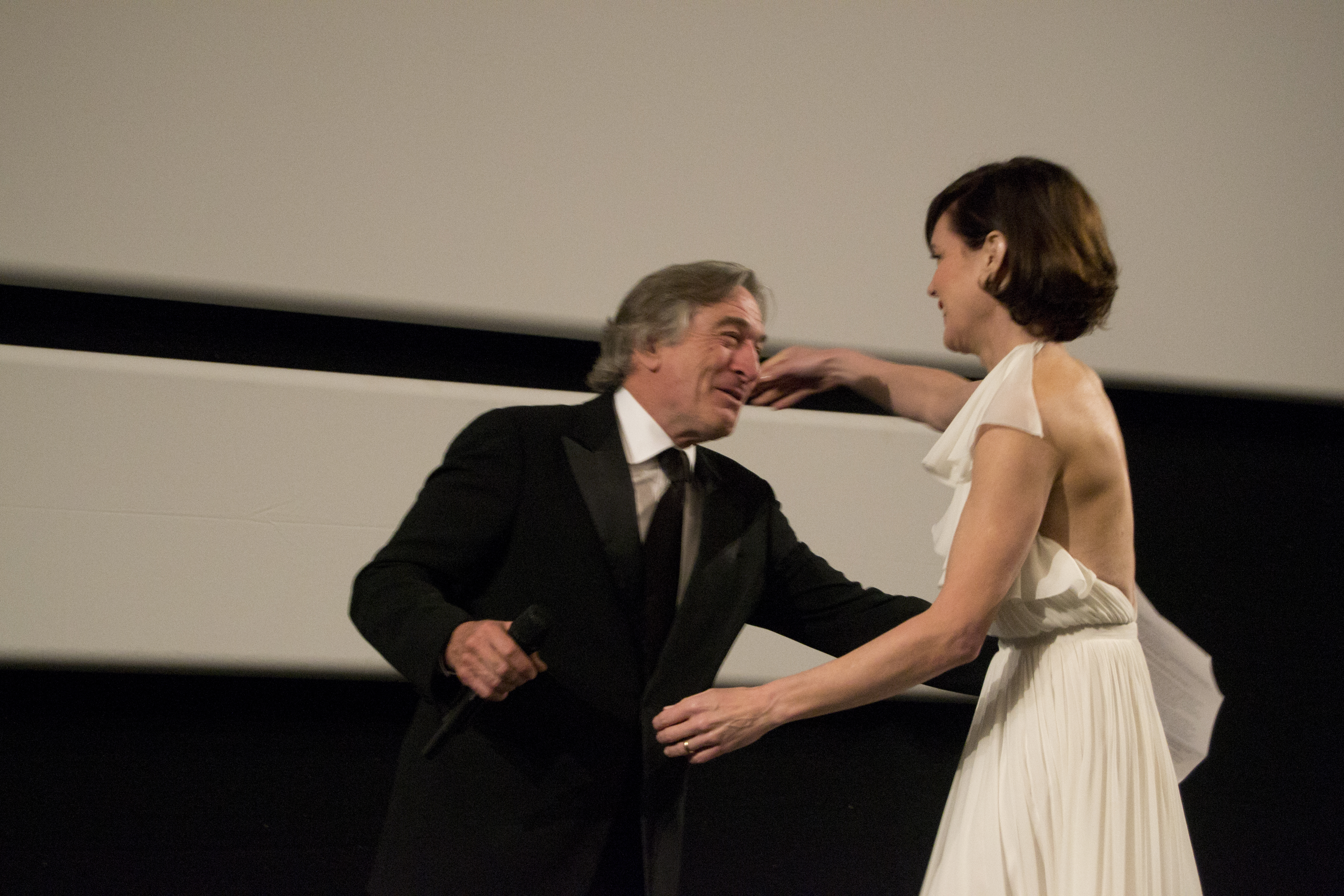 Robert De Niro and Elizabeth McGovern in Cannes (Salle du Soixantième), for the presentation of new "Once upon a time in America" (Sergio Leone, 1984) version.